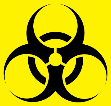 The biological hazard risk symbol on yellow background